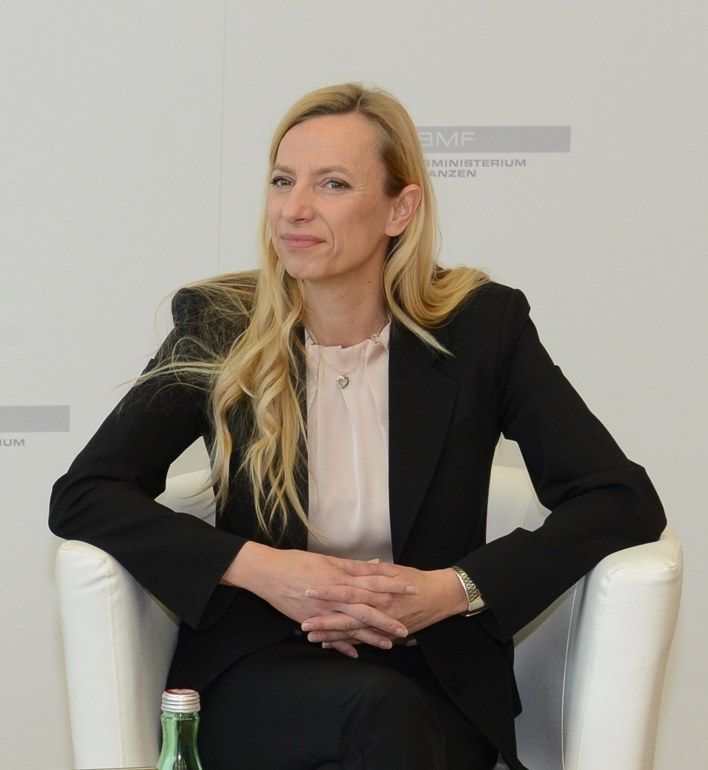 Fotocredit: BMF/Hradil